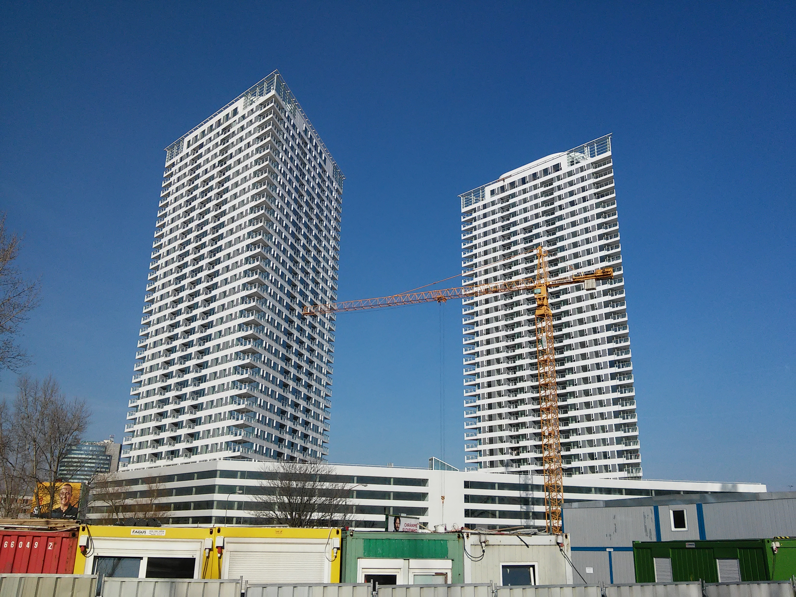 Panorama Towers, high-rise buildings in Bratislava